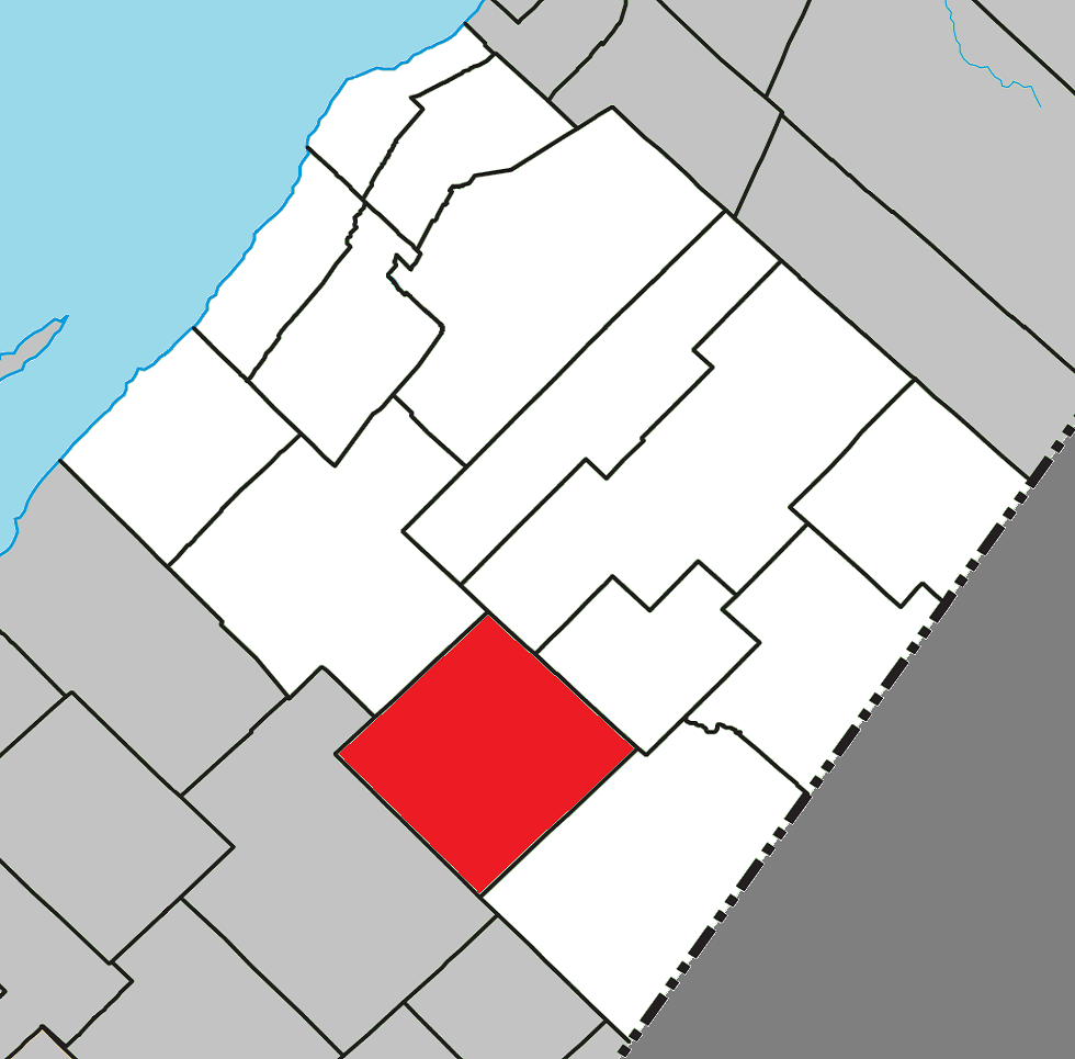 Location of Saint-Marcel, Quebec within L'Islet Regional County Municipality.